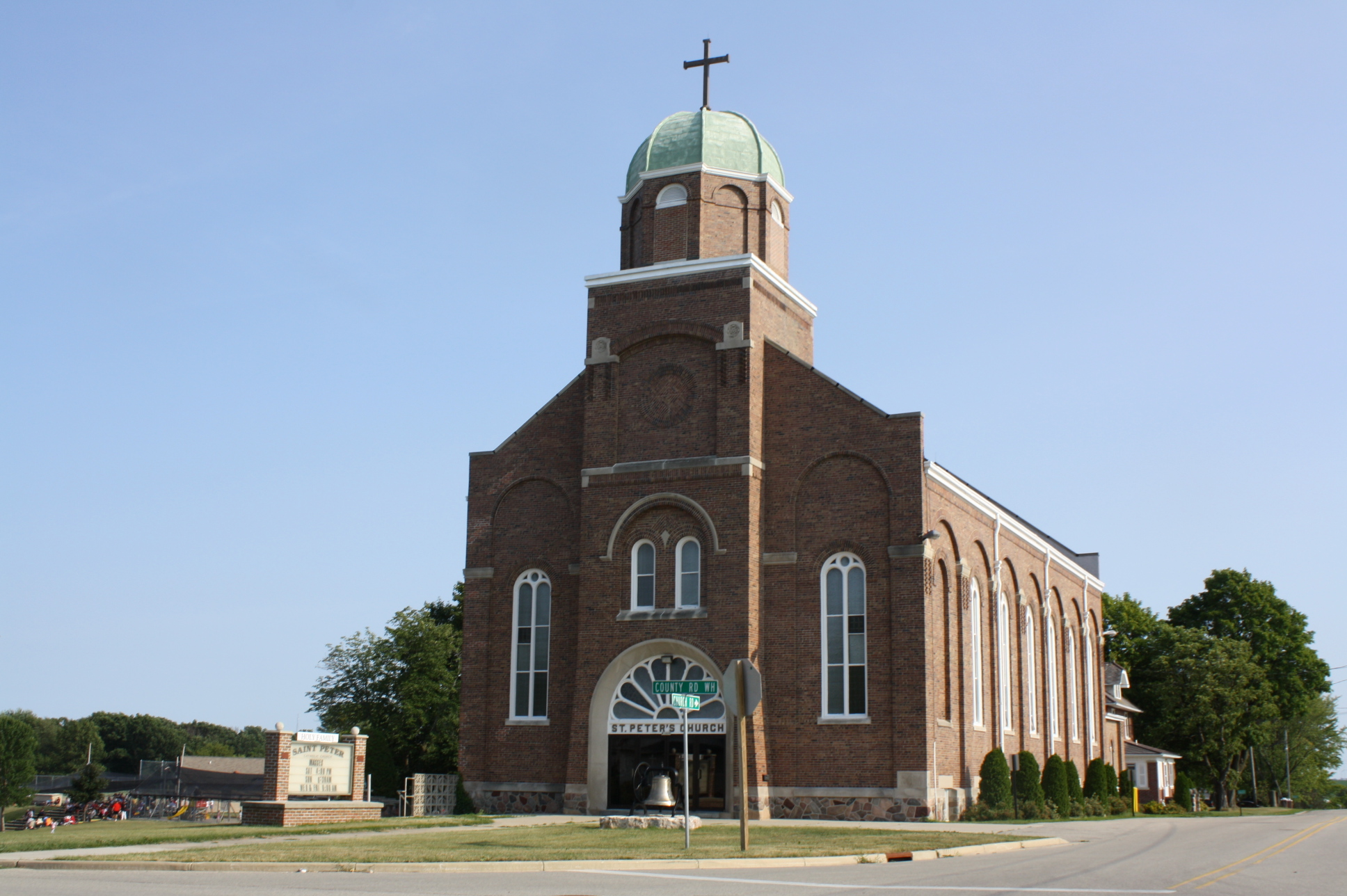 Looking south at St. Peter Catholic church in St. Peter, Wisconsin. The church was located on Wisconsin Highway 149 before it was decommissioned.